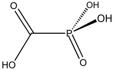 chemical structure of foscarnet